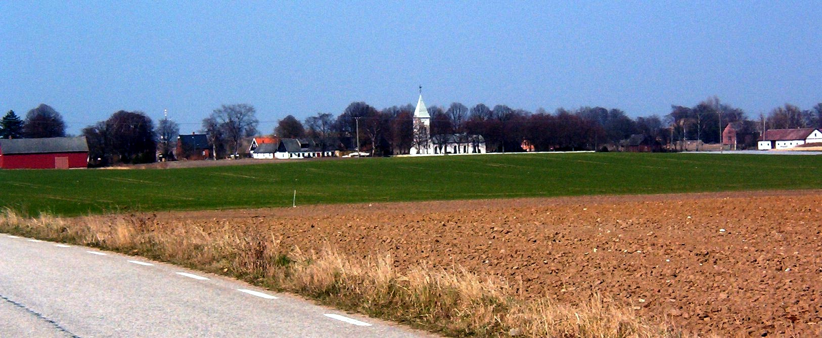 Scania, outside Malmö, village of Lockarp. I think I took it in 2002 or 2003, in the early summer.